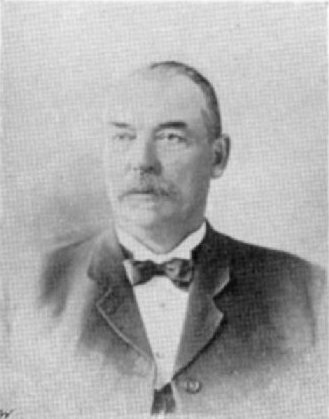 Head and shoulders portrait of New Zealand hotelier John Endean taken from the New Zealand Electronic Text Centre digitisation of the The Cyclopedia of New Zealand [Auckland Provincial District] originally printed in 1902 but released by the NZETC under a CC-SA 3.0 license.